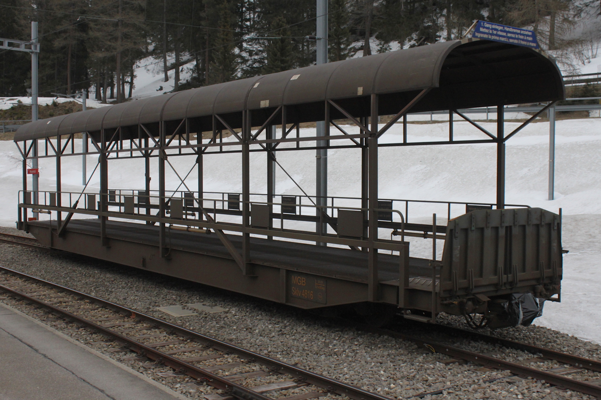 MGB Sklv 4816 at Hospental train station.